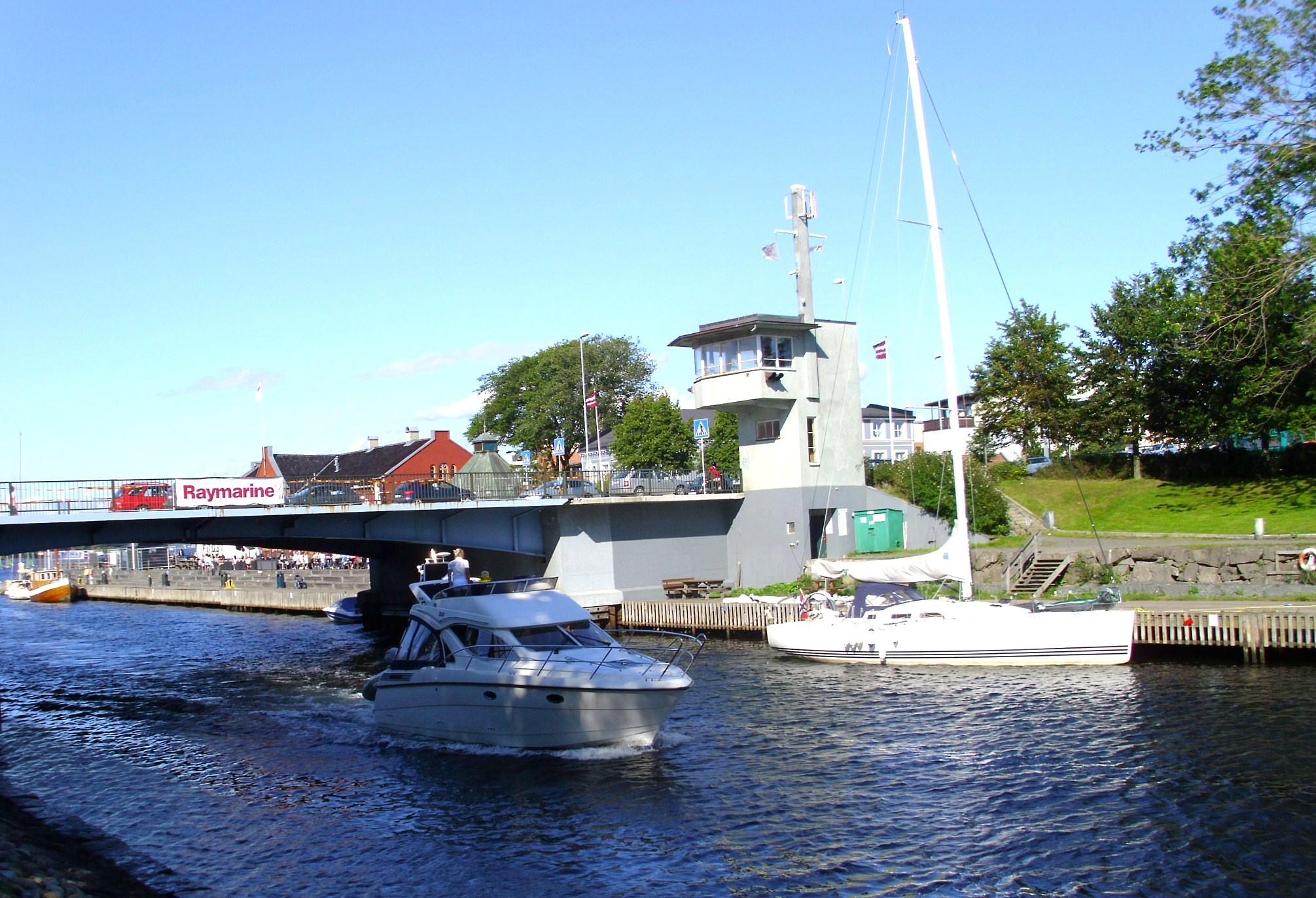 Bridge over the canal between Moss and Jeløy